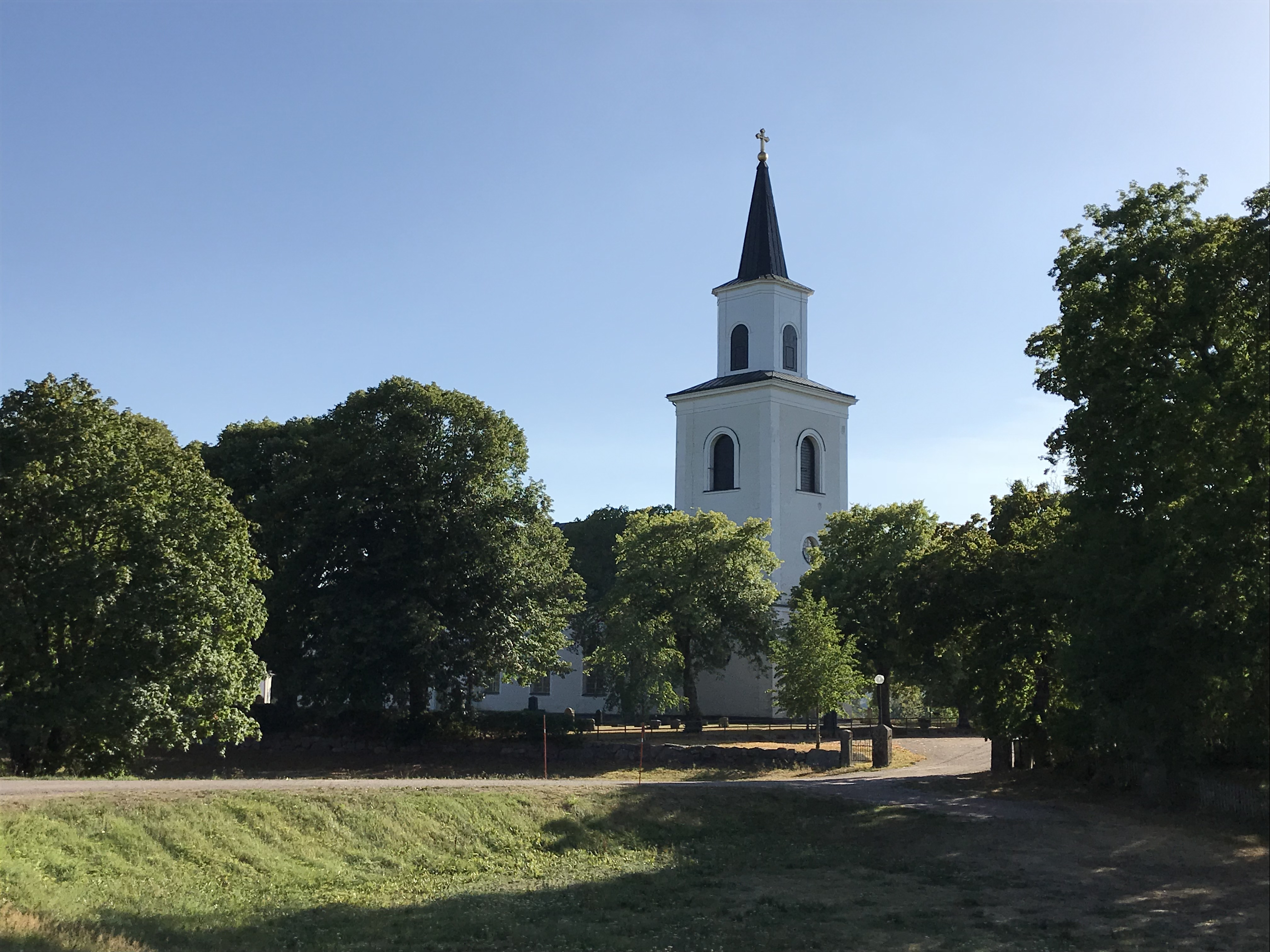 Flisby church in Jönköping county in Sweden, in August 2018. Built 1850-1853. Architect Johan Adolf Hawerman.